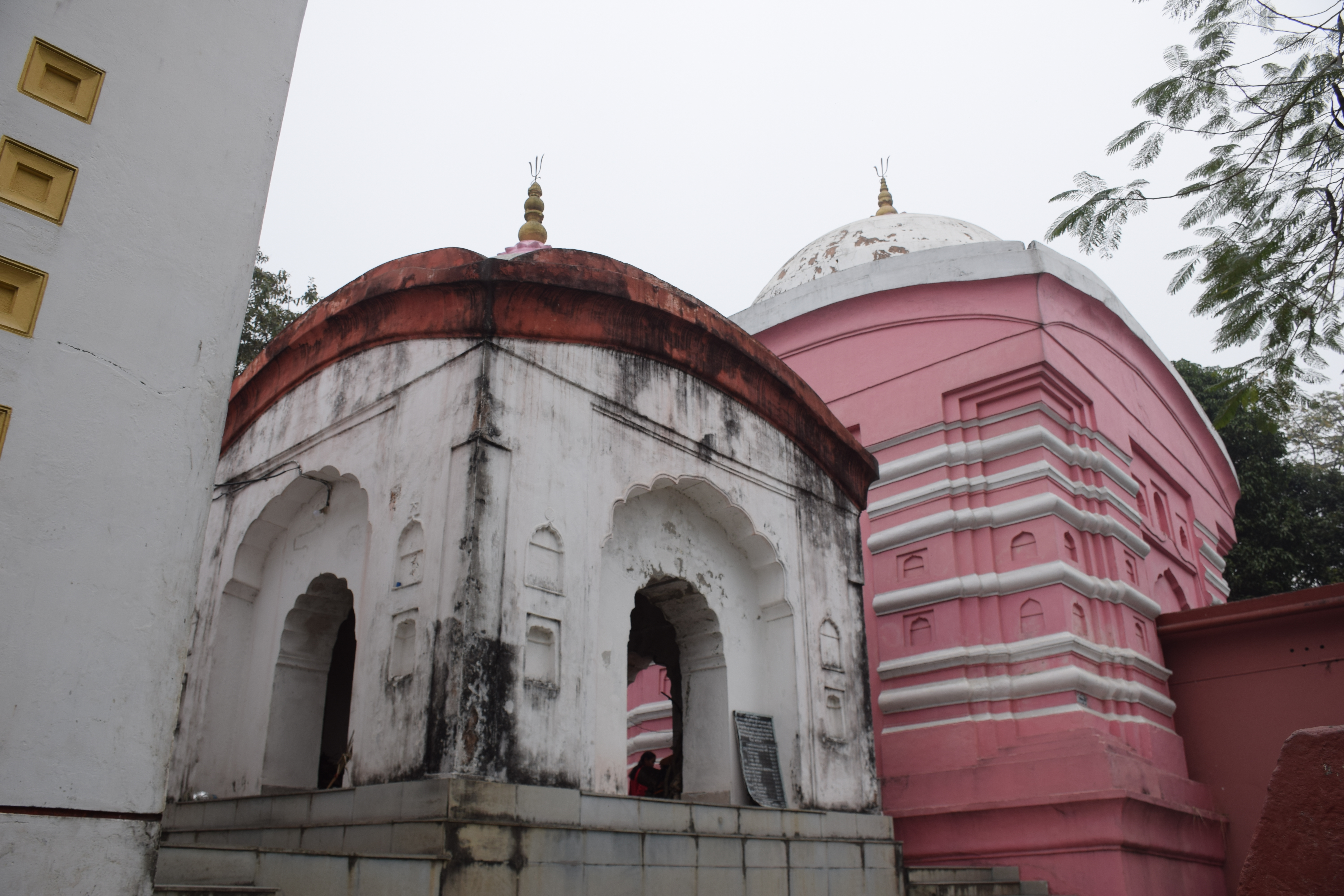 Gosanimari Kamteshwari Temple at Cooch Behar District In West Bengal.